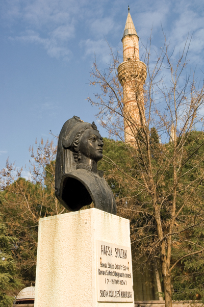 Bust of the en: Ayşe Hafsa Sultan in Manisa, Turkey, en: Selim I's wife and en: Süleyman the Magnificent's mother.